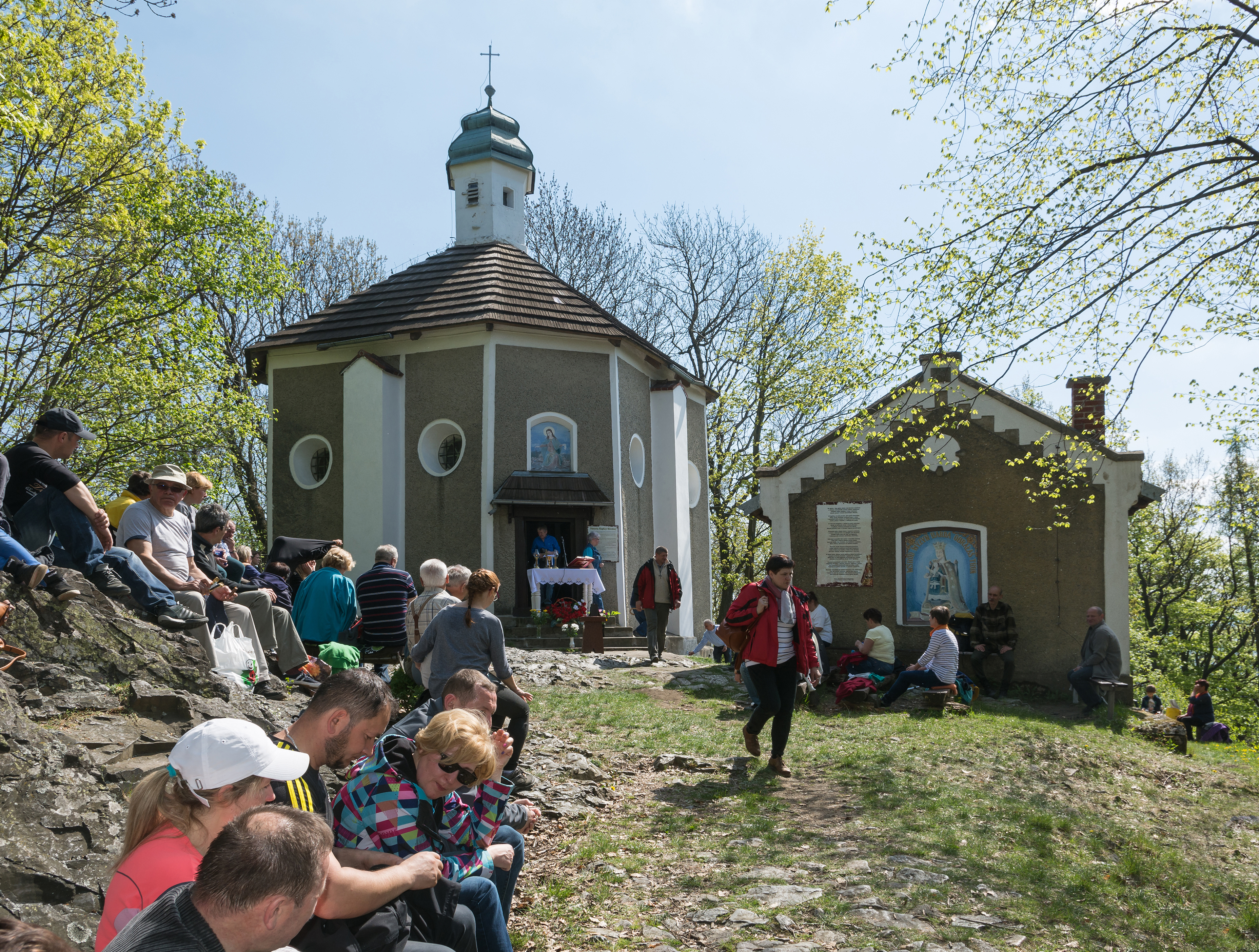 Chapel of the Blessed Virgin Mary on Bardzka Góra